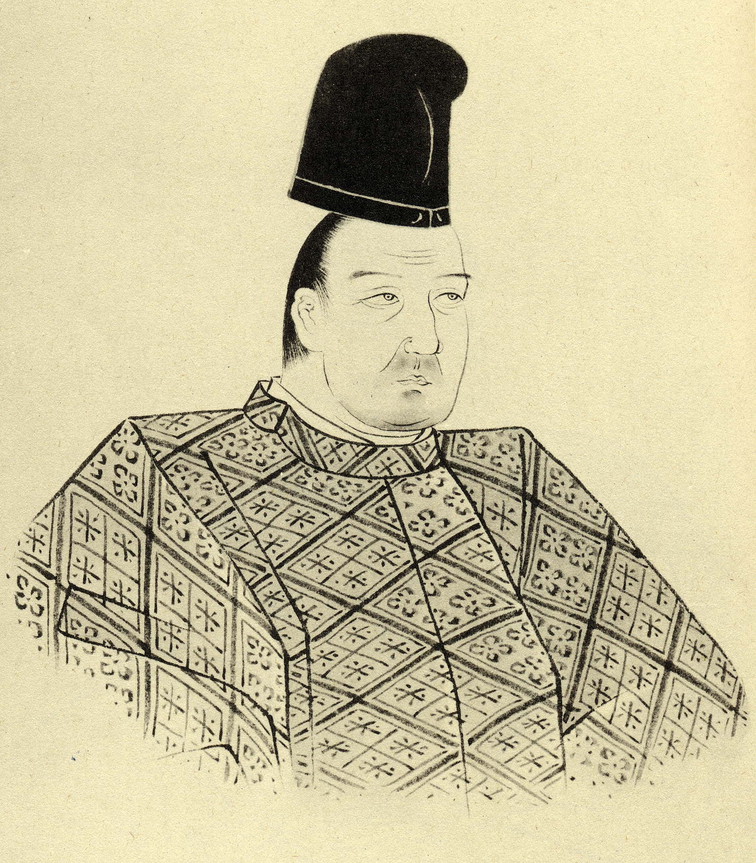 Karasuma Mitsuhiro (烏丸光広, 1579-1638) was a japanese nobility and poet of the Edo period.